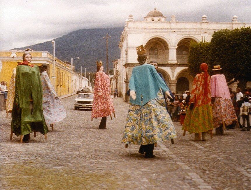 Antigua Guatemala: Giants dance in the street in front of the Cathedral in the main square on for a Saints Day celebration. Corpus Christi celebrations